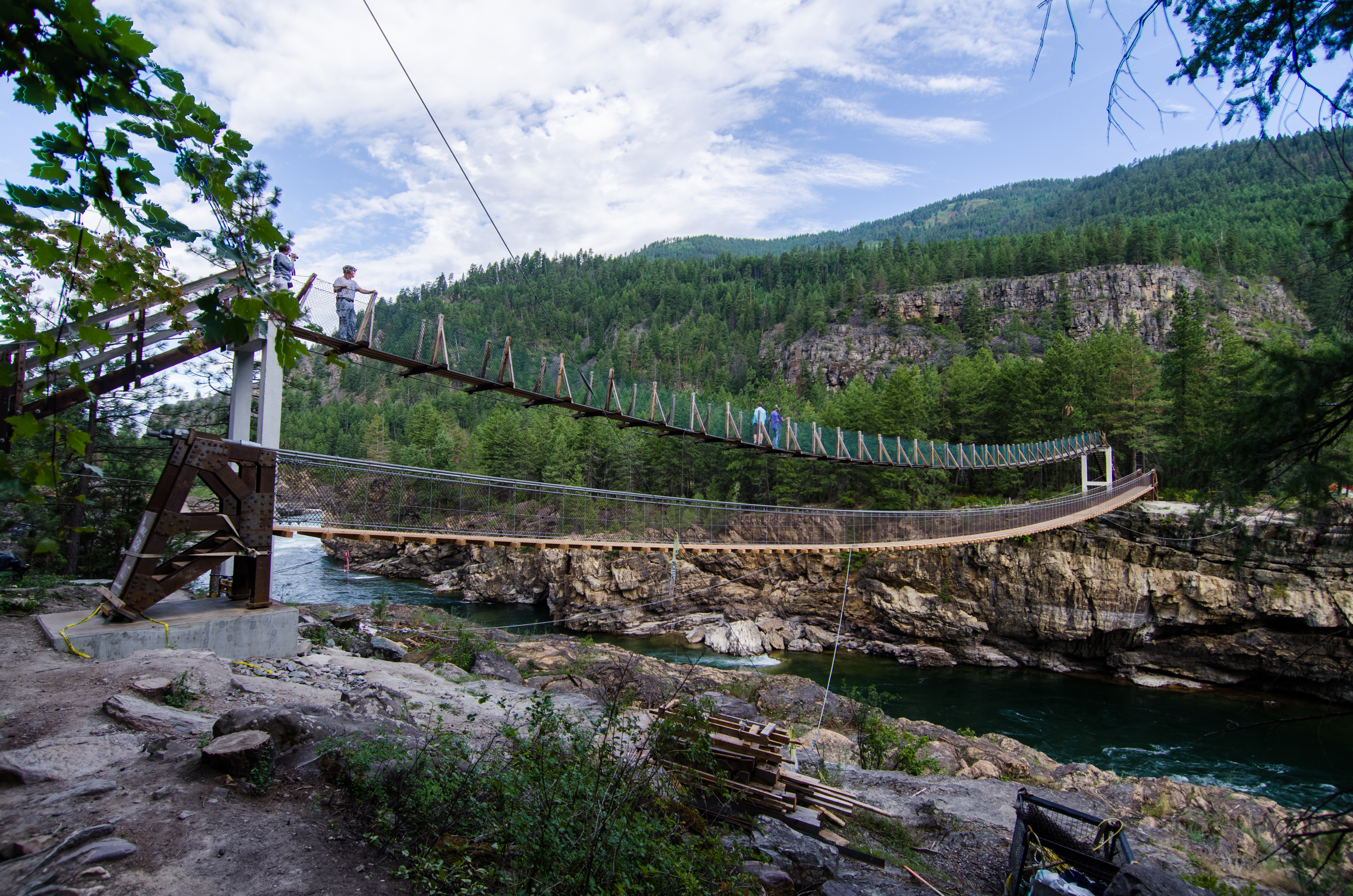 The Kootenai Falls Swinging Bridge is a simple suspension bridge that offers a breathtaking view of the Kootenai River gorge directly below Kootenai Falls.